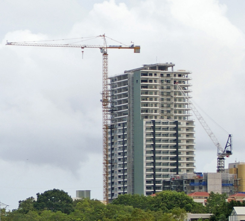 Outrigger Pandanas February 2008. Darwin, Northern Territory